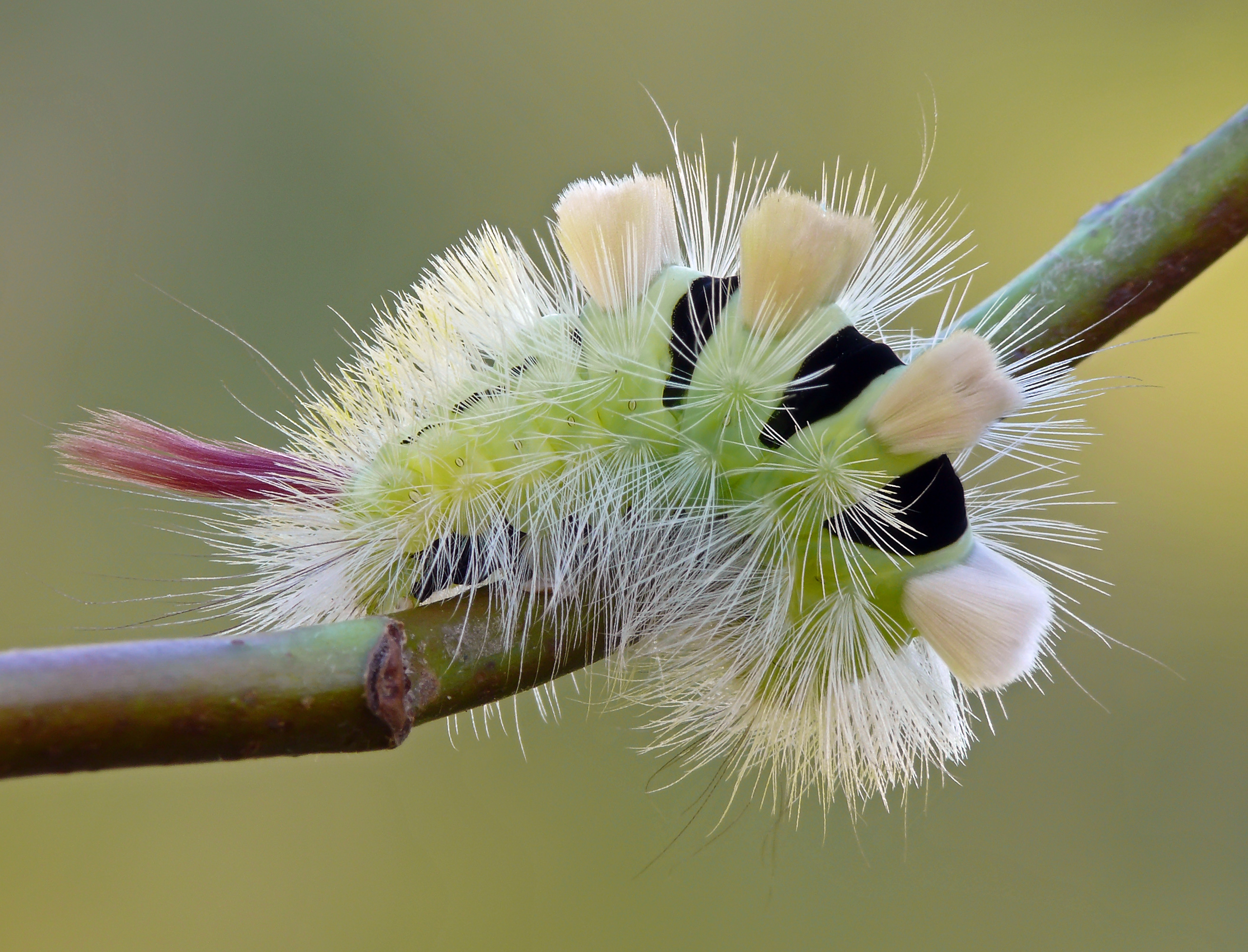 The Pale Tussock caterpillar (Calliteara pudibunda)